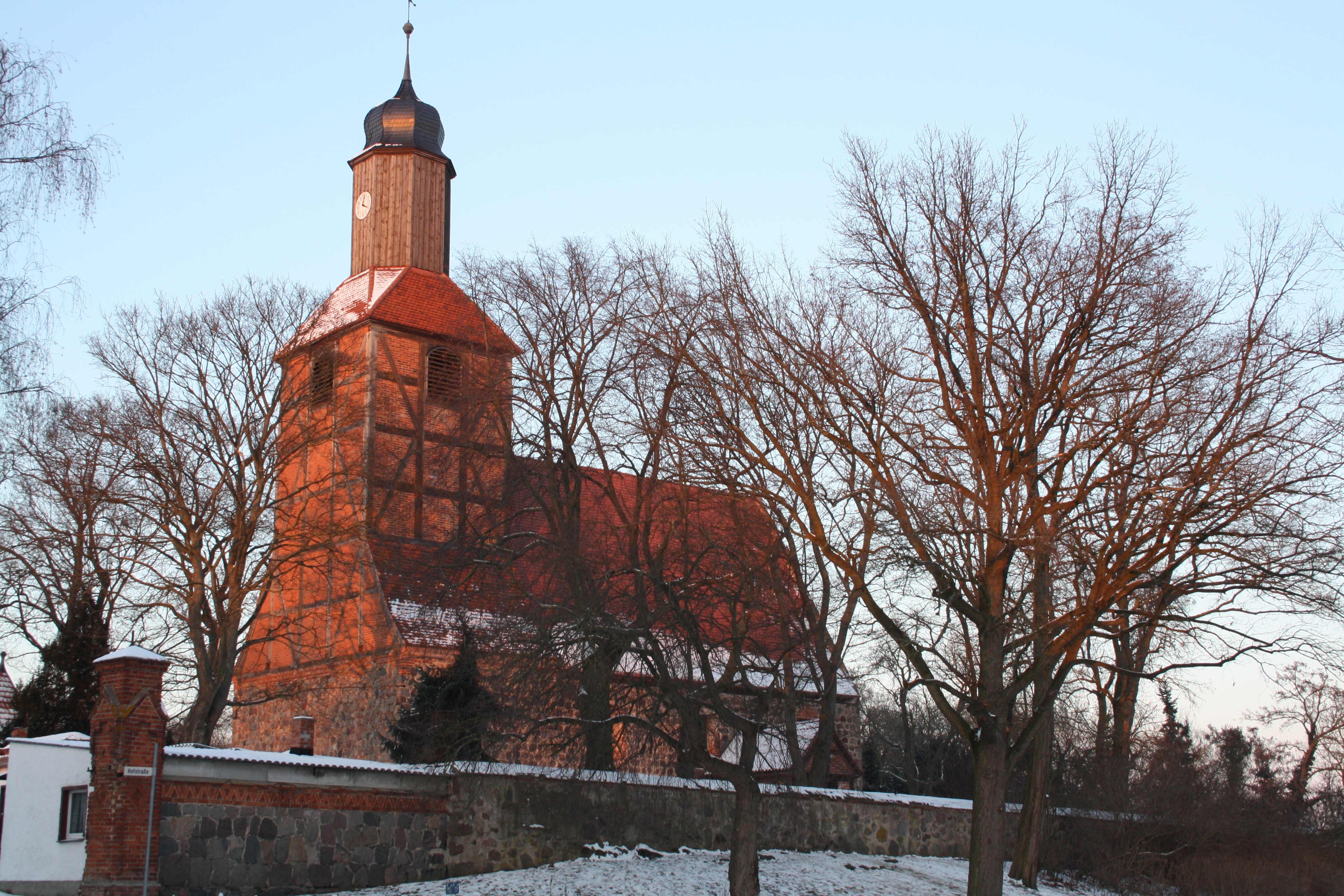 Church Menkin